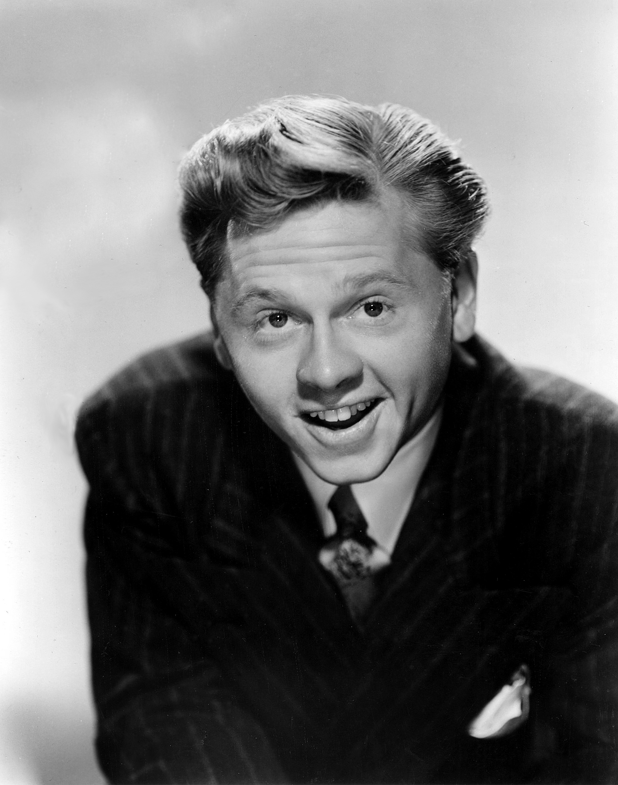 Studio publicity portrait of Mickey Rooney.